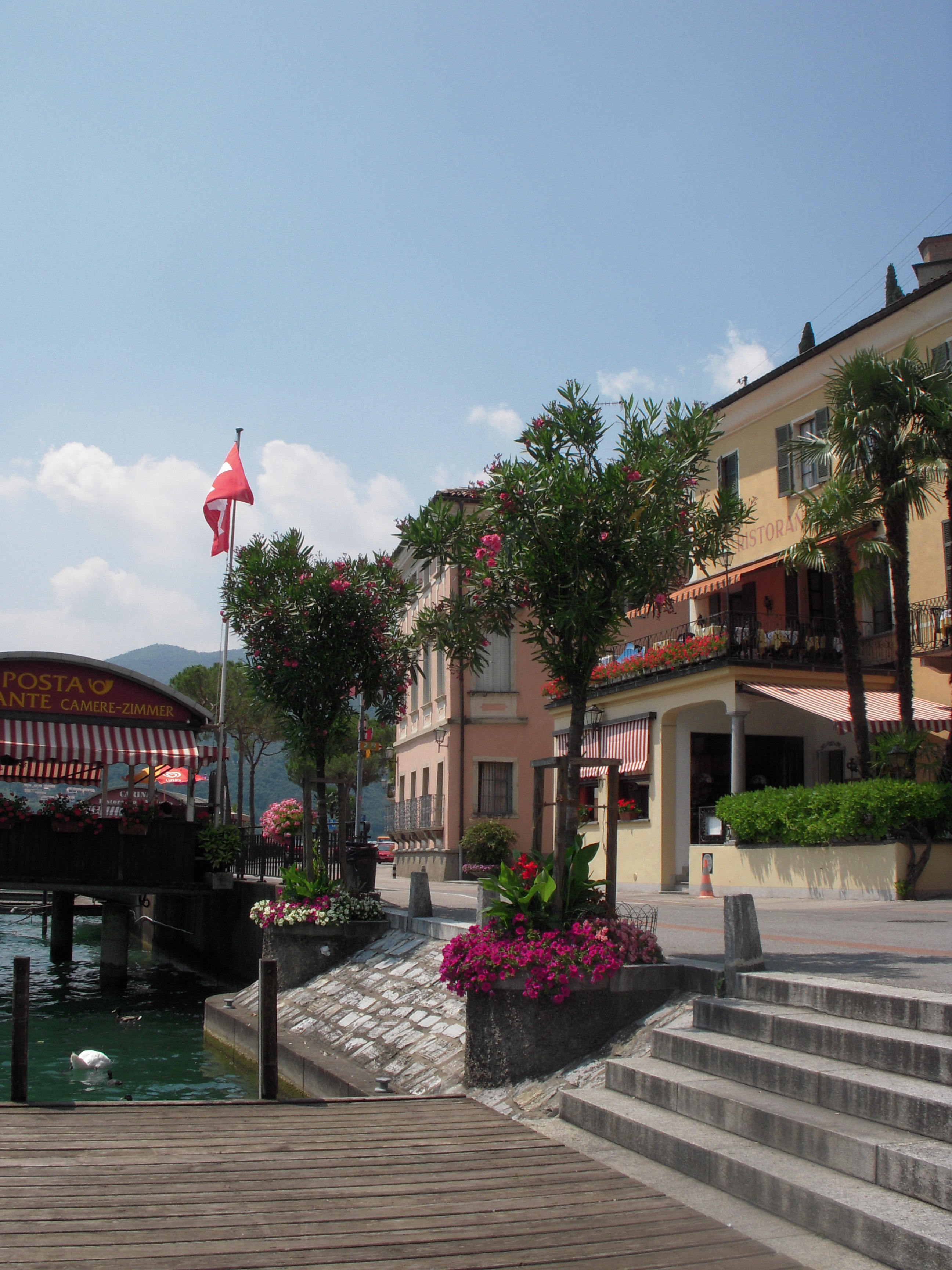 Morcote at Lake Lugano, Schweiz